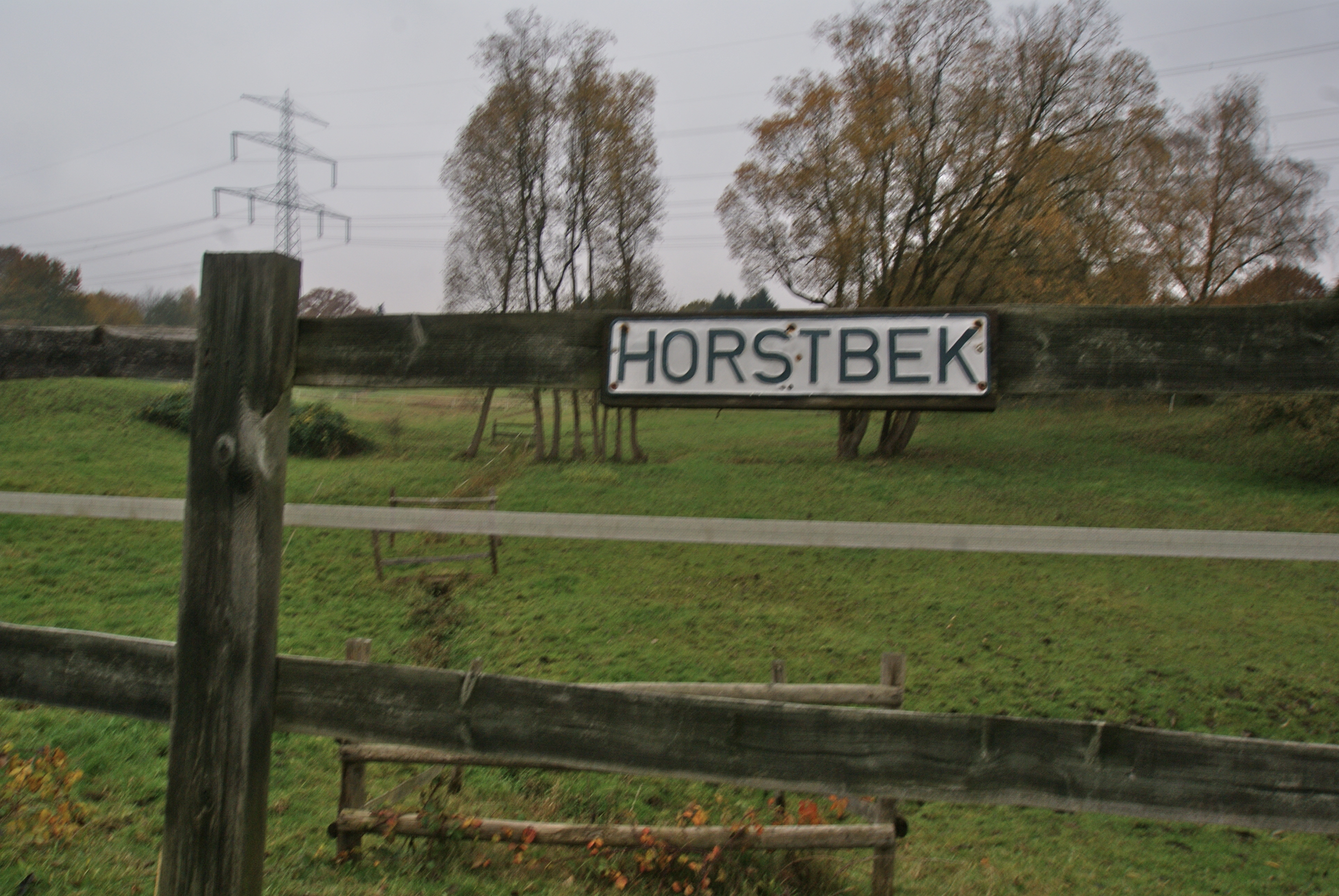 Hamburg (Lemsahl-Mellingstedt), Germany: The river Horstbek near to the Kielbarg